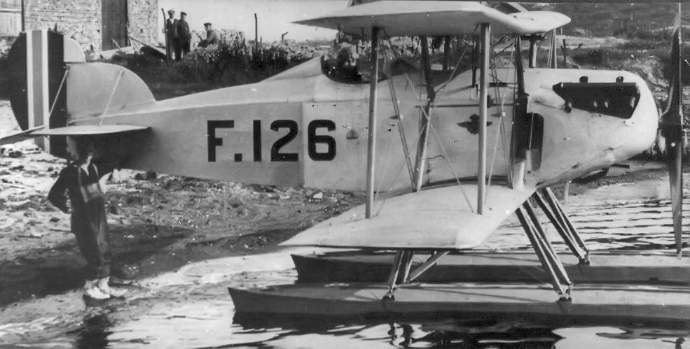 F.126 - one of the Royal Norwegian Navy Air Service's Marinens Flyvebaatfabrikk M.F.9B seaplane fighters.